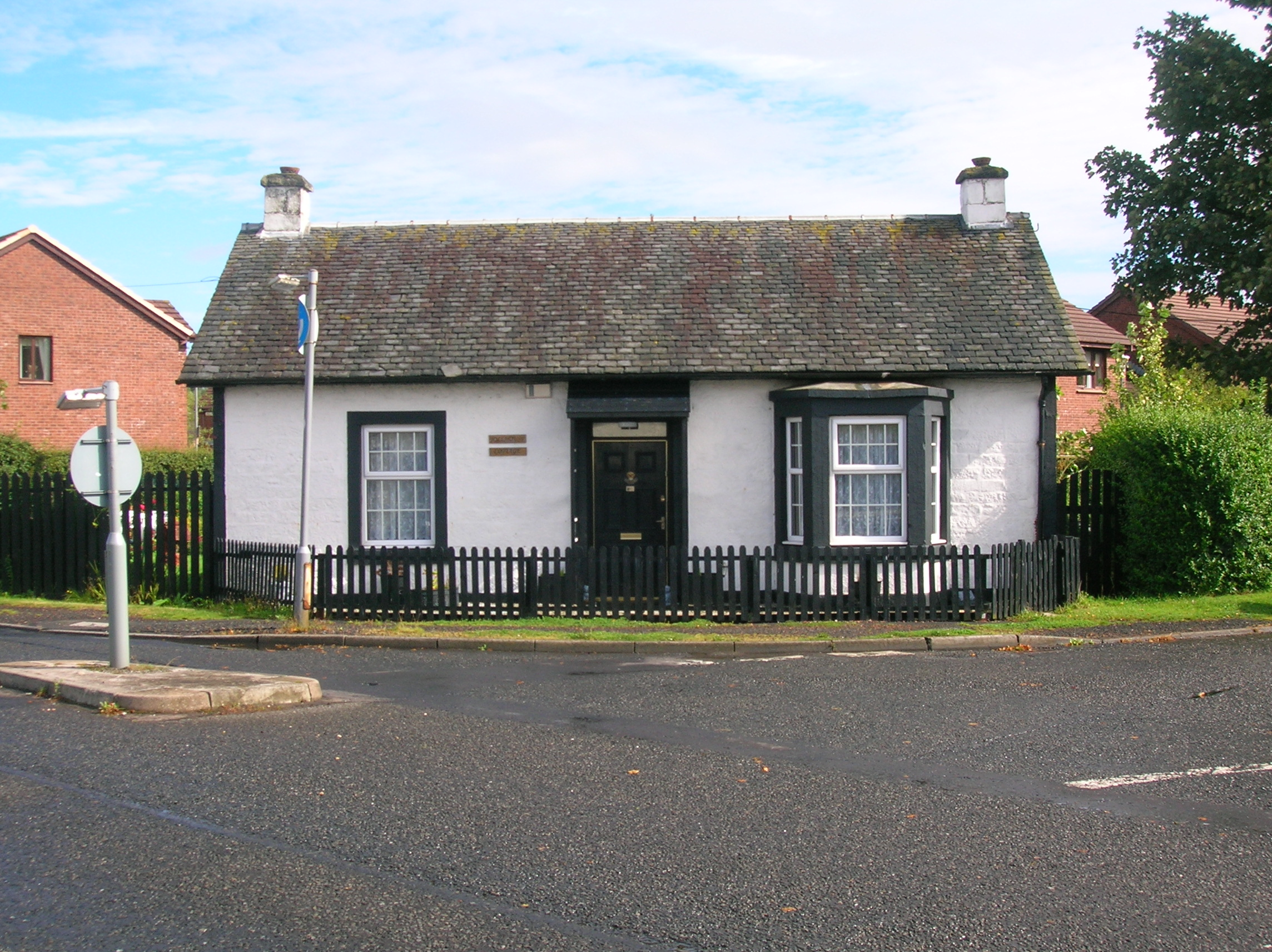 The Girdle Toll house, Girdle Toll, Irvine, North Ayrshire, Scotland.